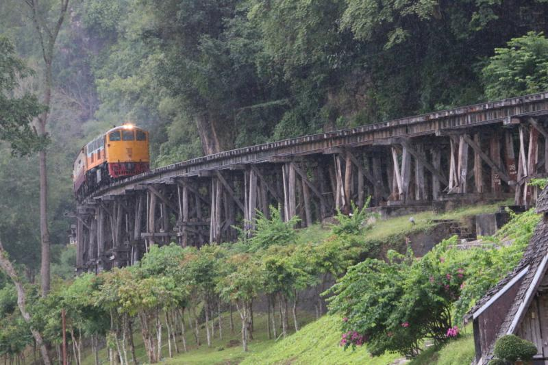 "Death Pass" at the bridge over Kwai